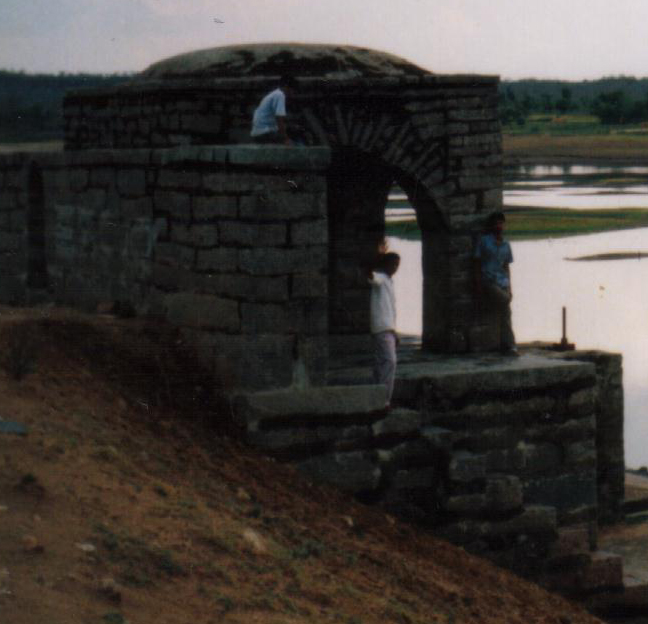 dharmaram village pedda tuum photo